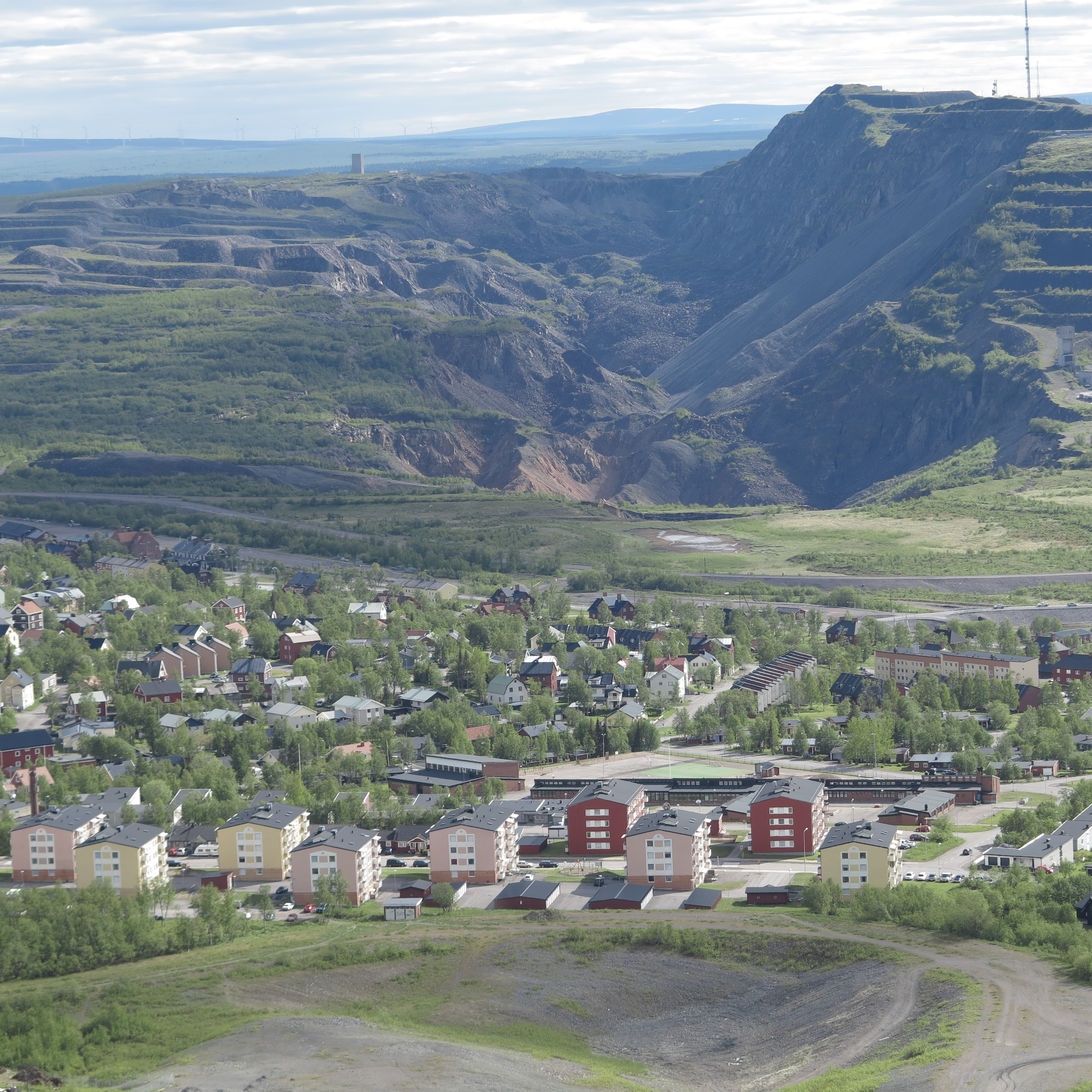 Kiruna and Kirunavaara seen from Luossavaara